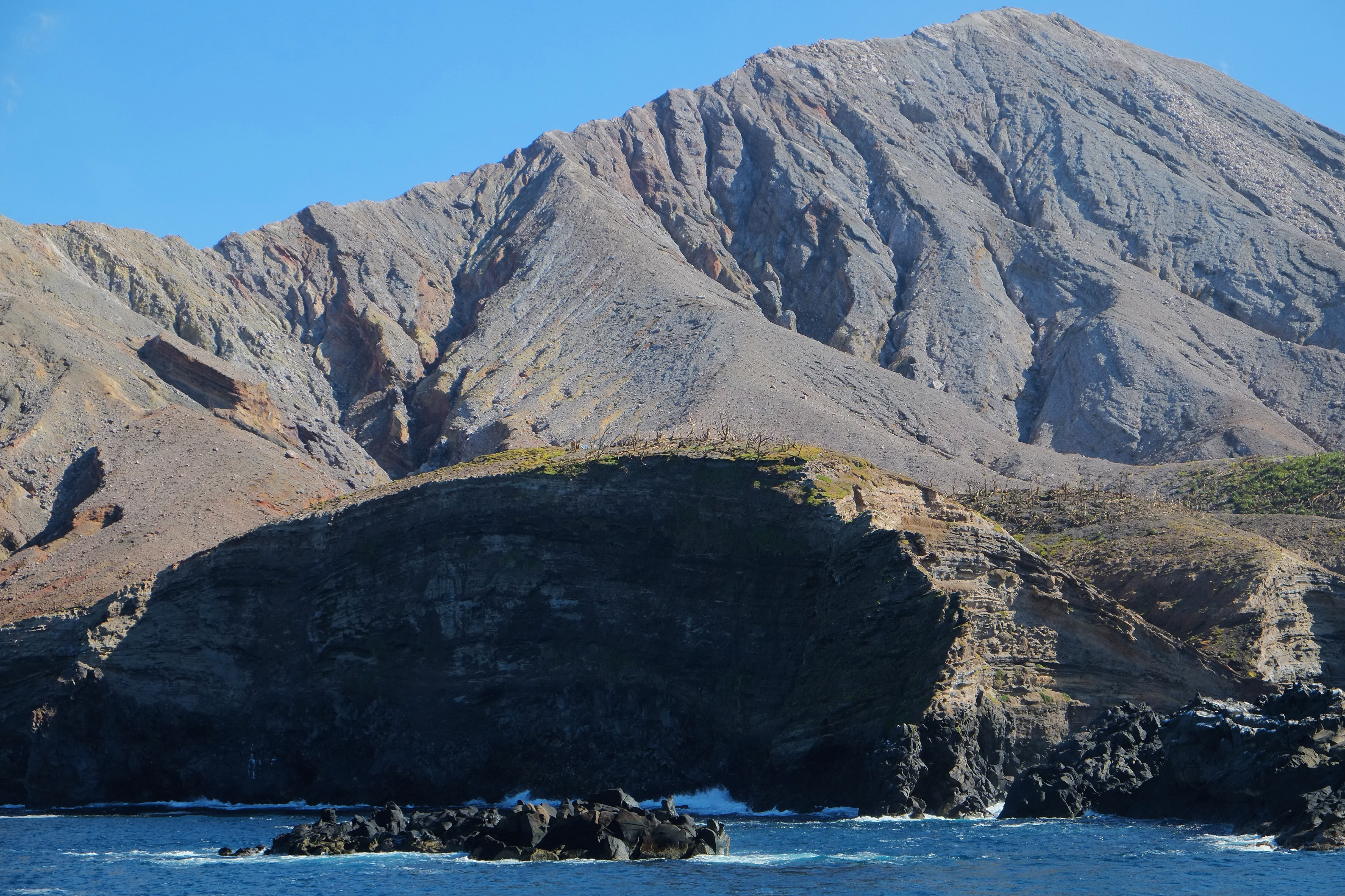 Dead pohutukawa forest remnants on White Island